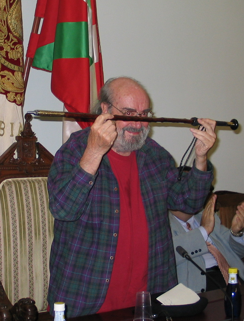 Spanish writer